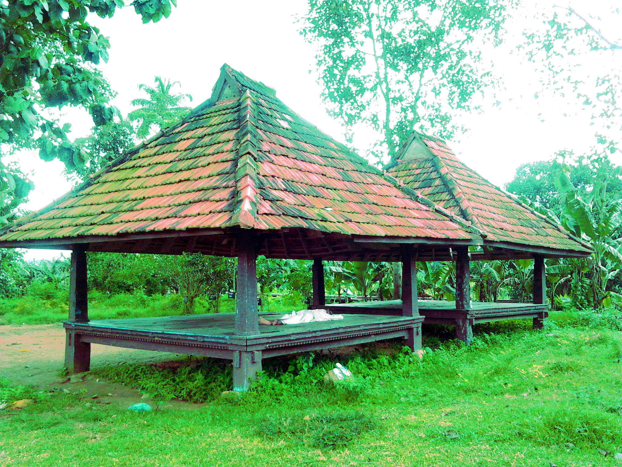 Kalathattu in Thalavoor Thrikkonnamarkodu Durga Devi Temple